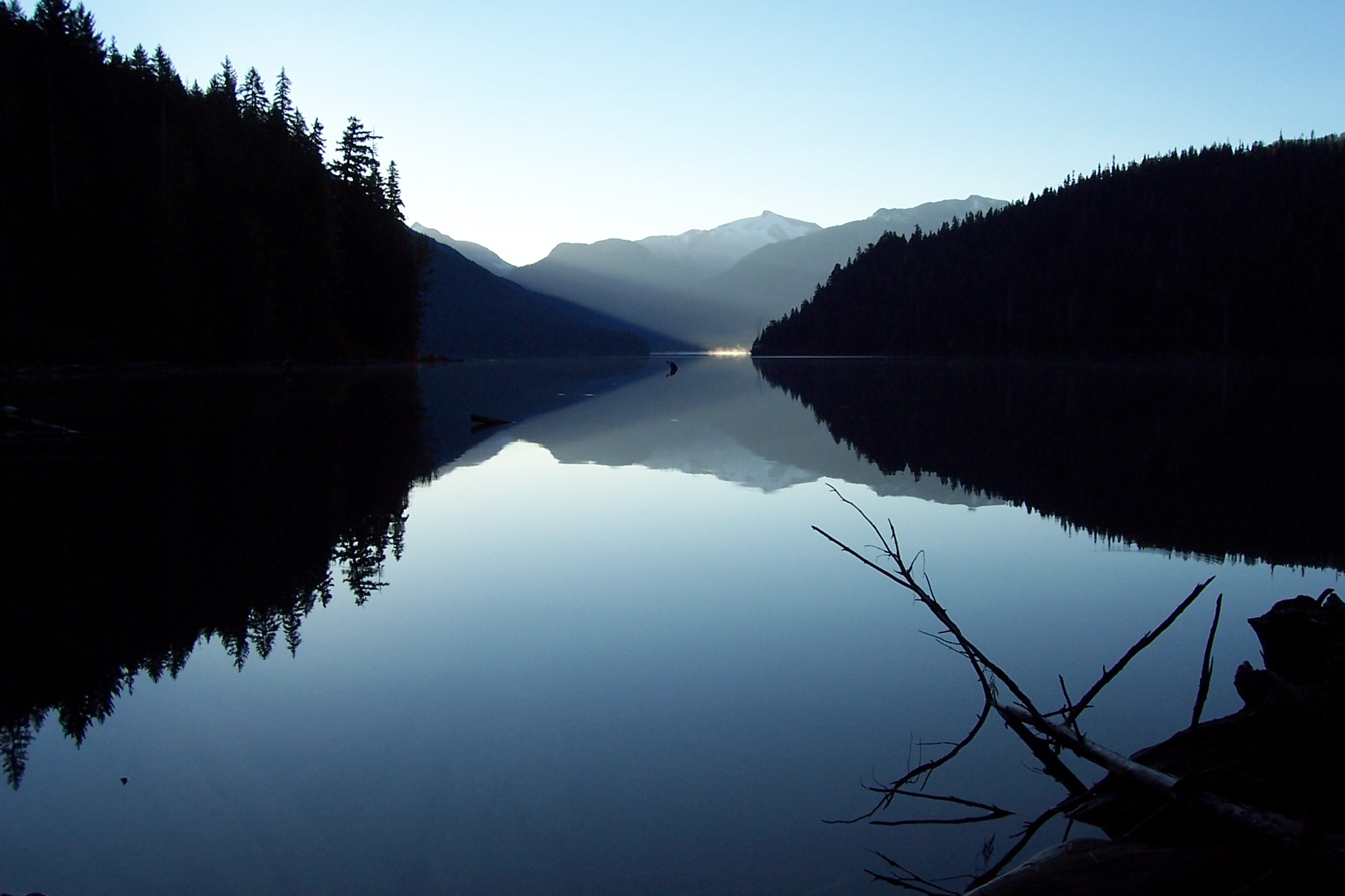 Cheakamus Lake, British Columbia, at dawn